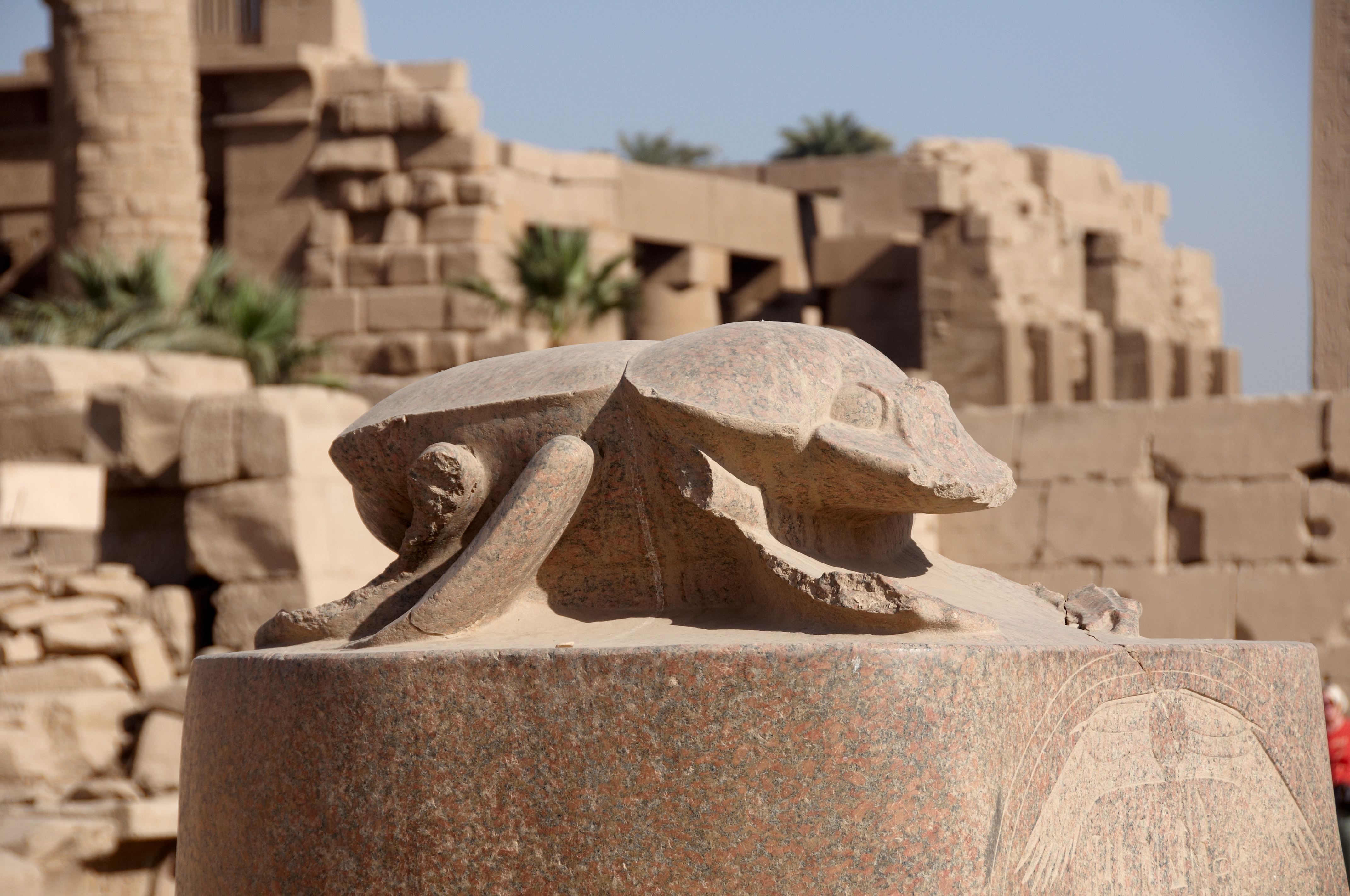 Granit scarab beetle statue in Karnak temple, Luxor, Egypt